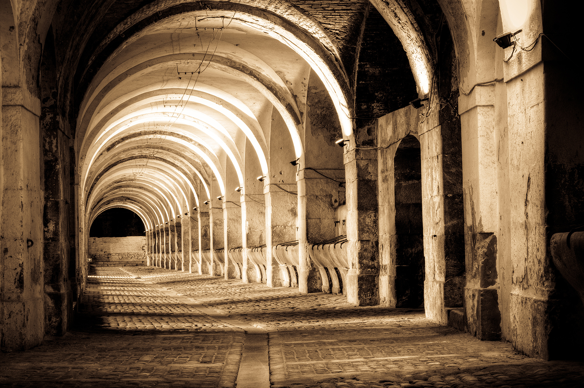 Image of one of two Sant Ferran Castle's stables in Figueres.